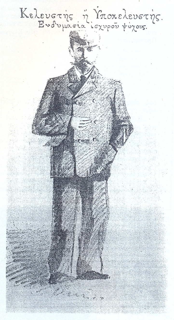 Old Hellenic Navy uniform